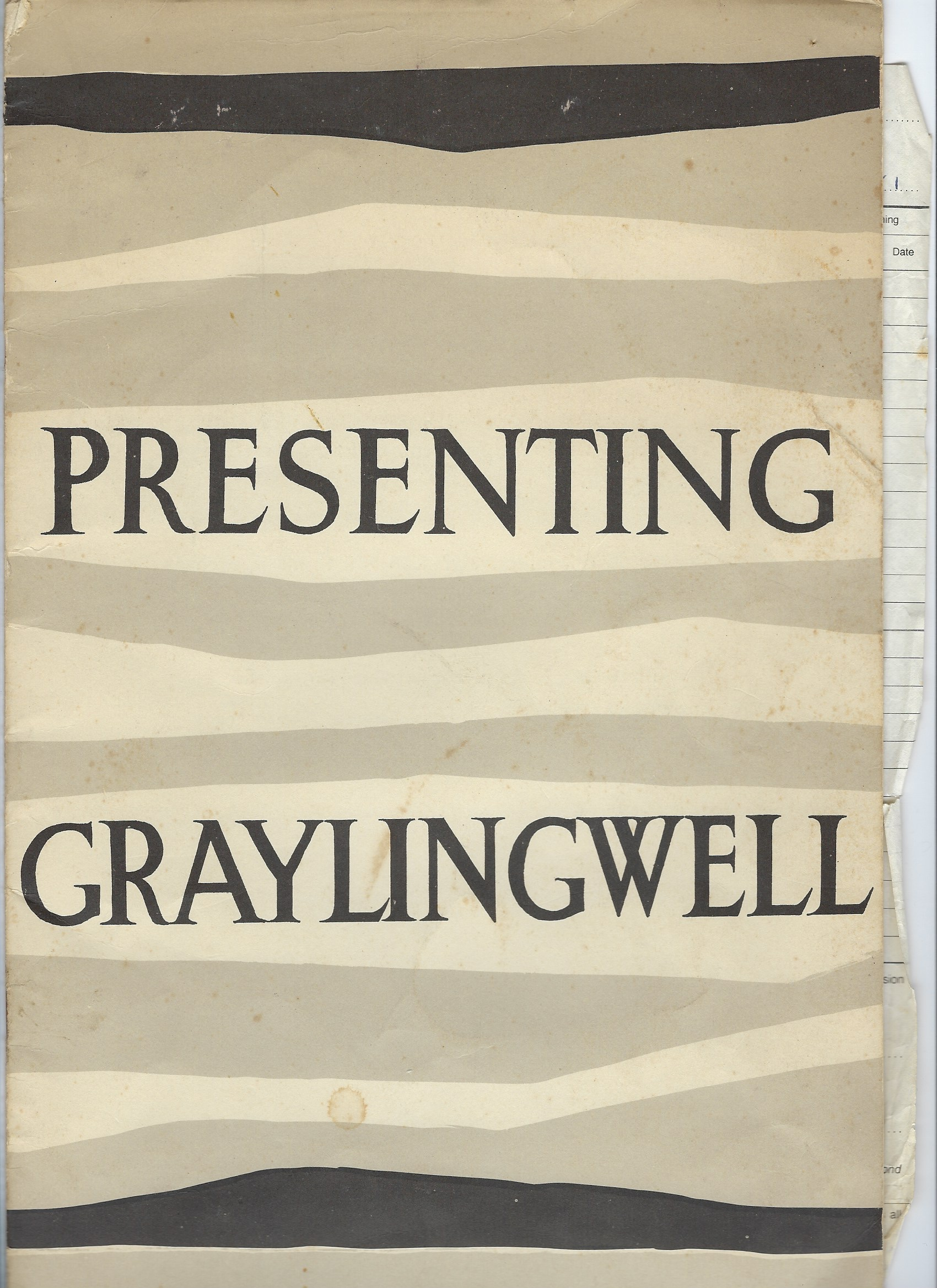 Patient Leaflet cover page 1981